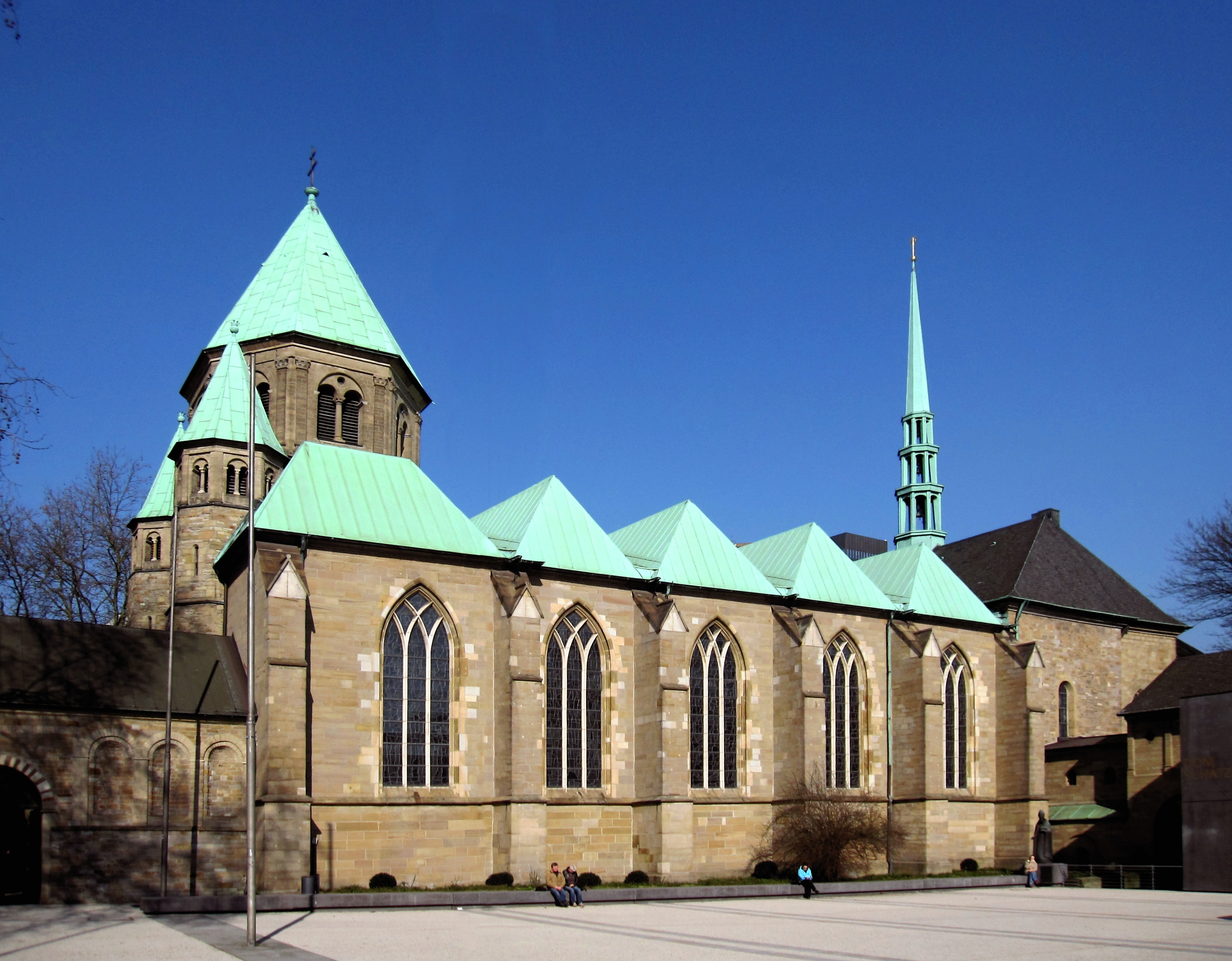 Essen Muenster.